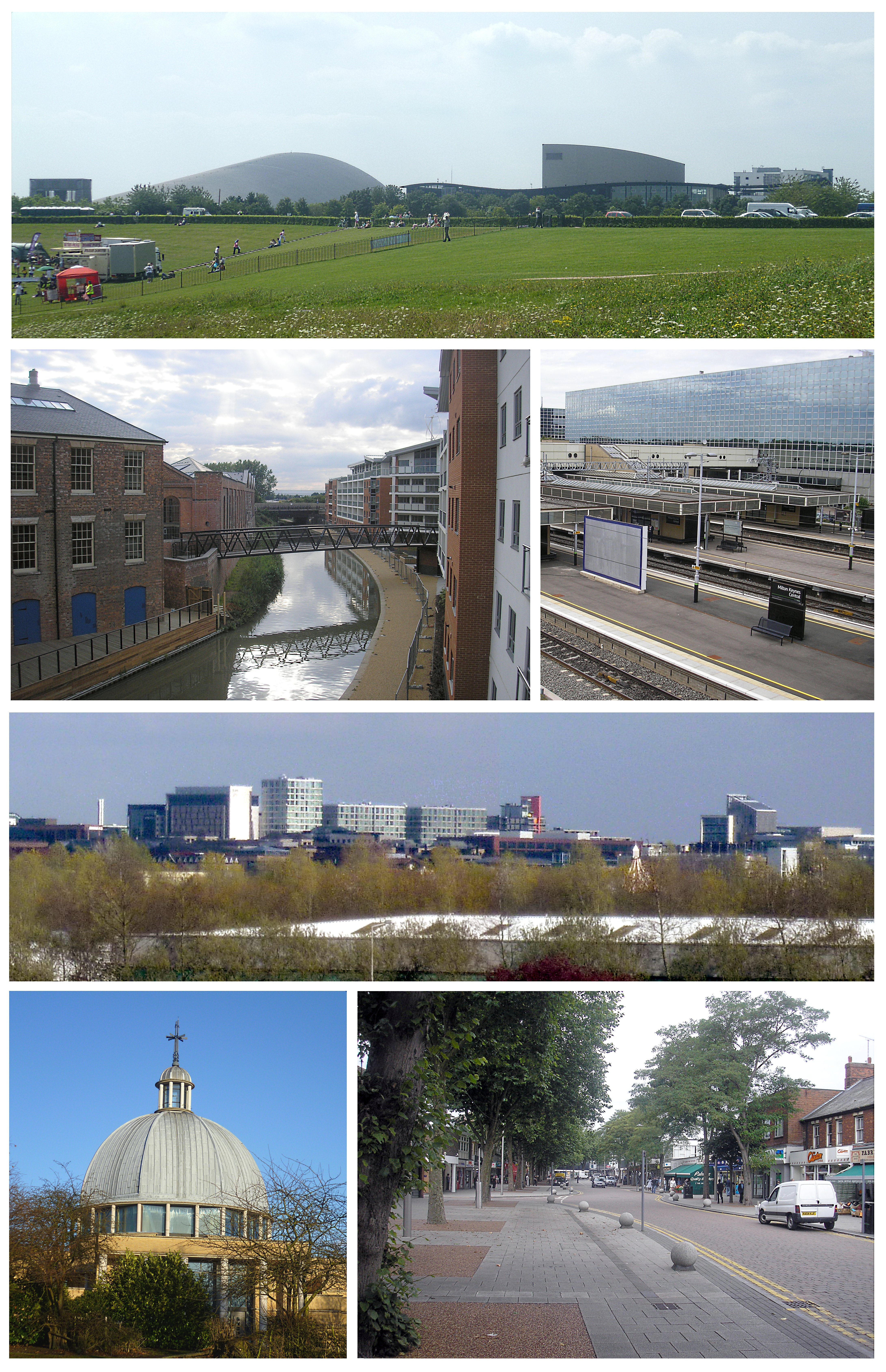 A montage of images of Milton Keynes.